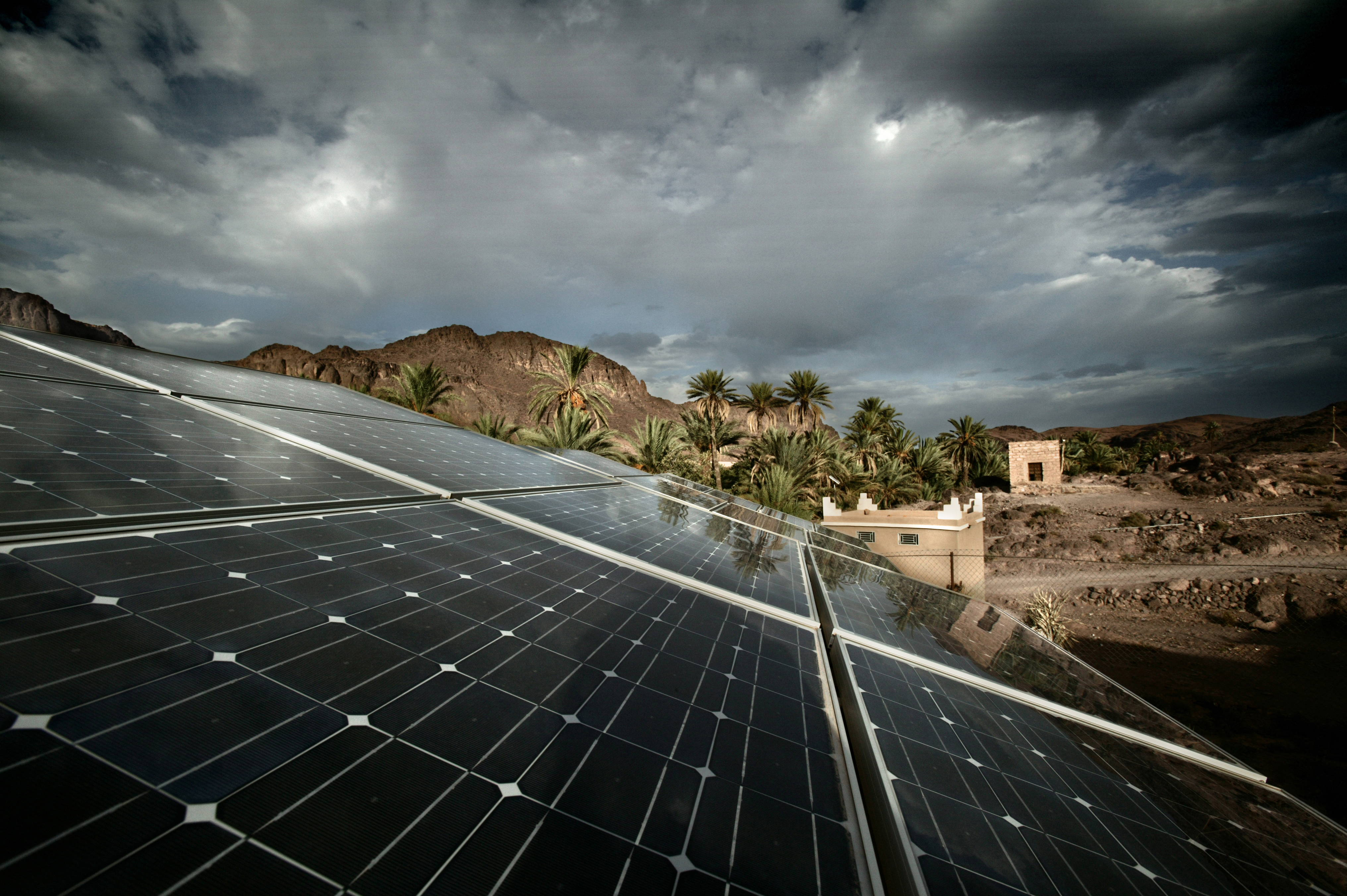 Photovoltaic Micro-plants by Isofoton (Morocco)